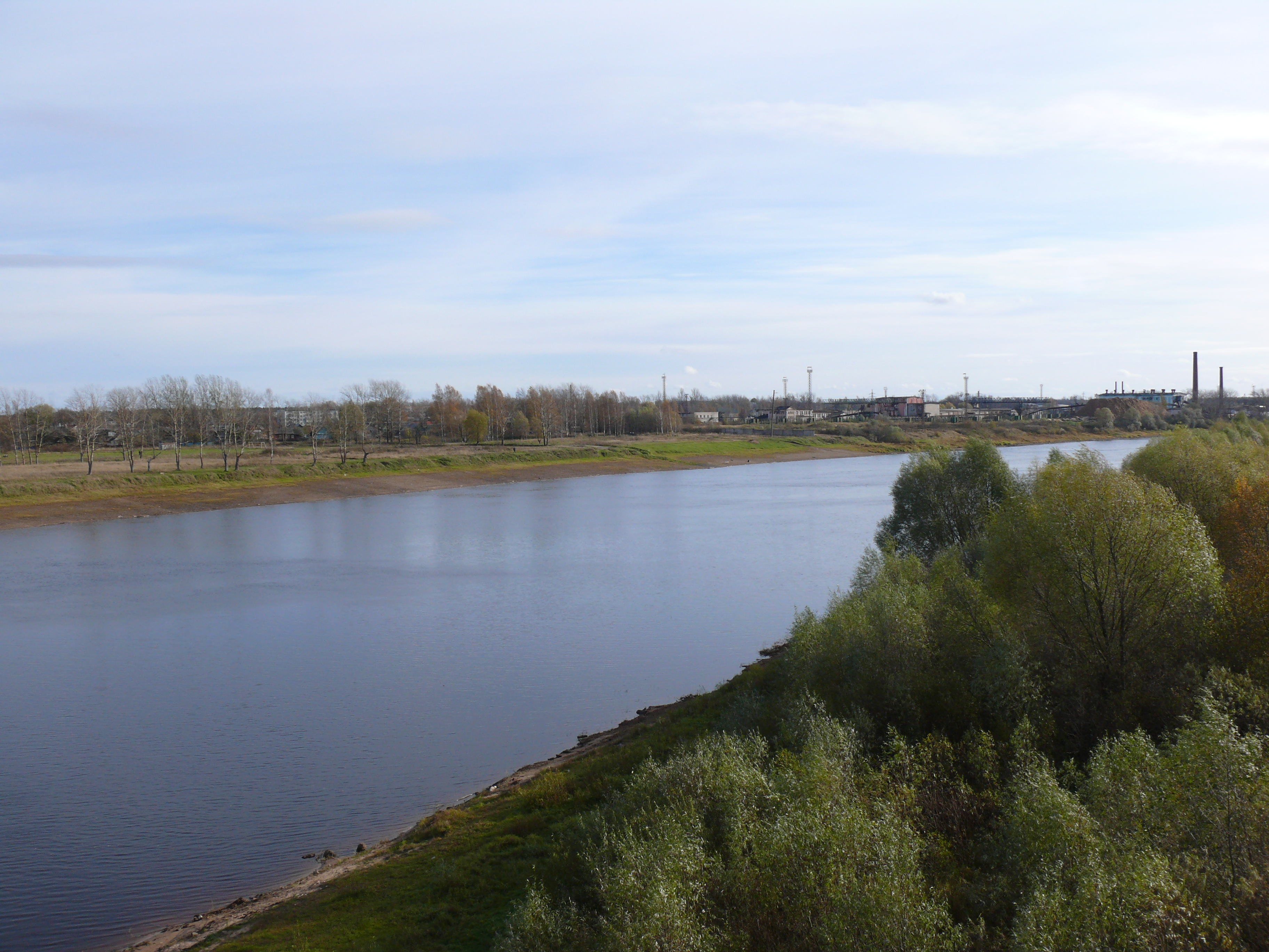 Lovat river and Parfino village on the background. Novgorod oblast, Russia